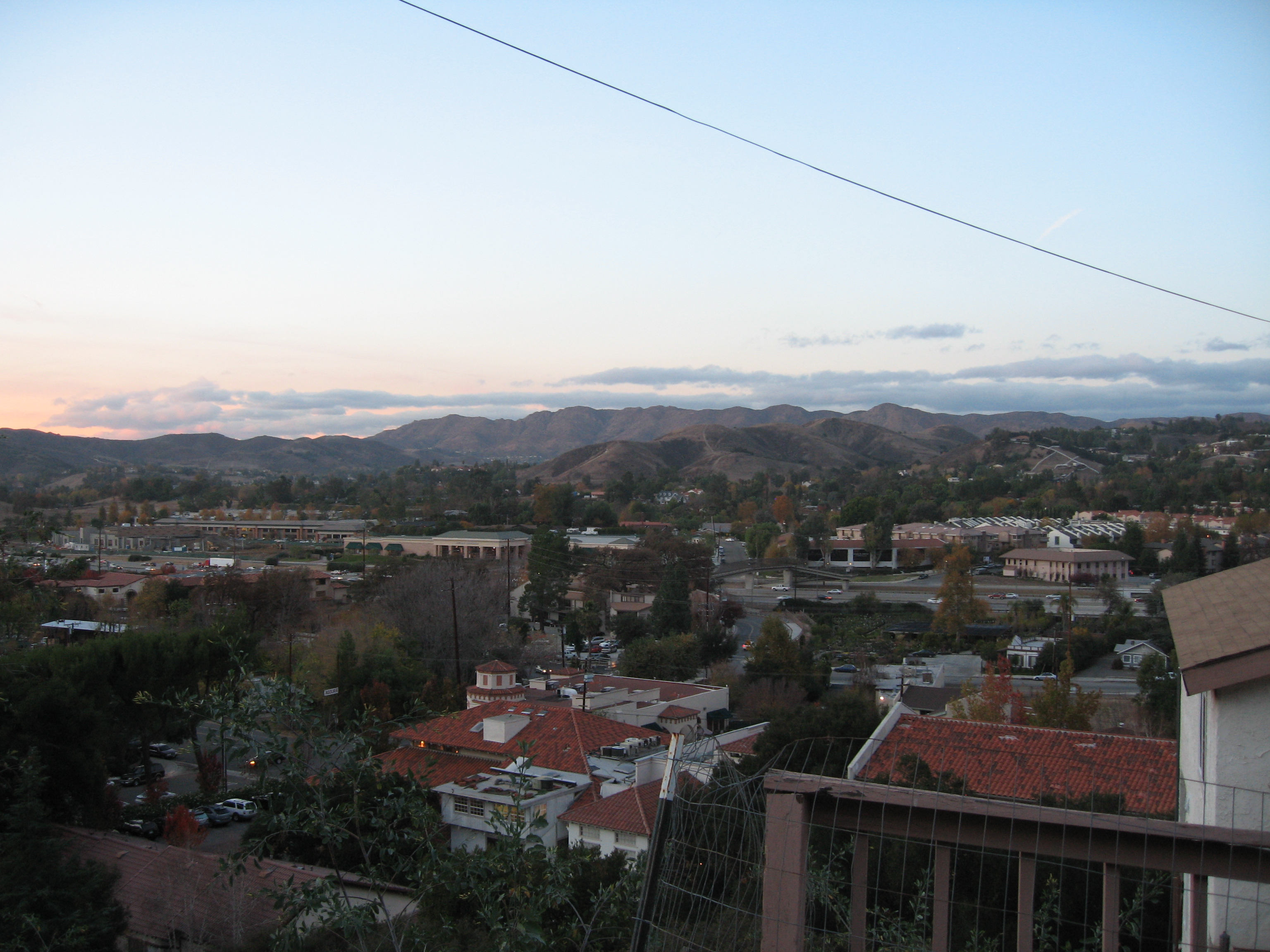 Agoura Hills. East Agoura is on the right side of the image.